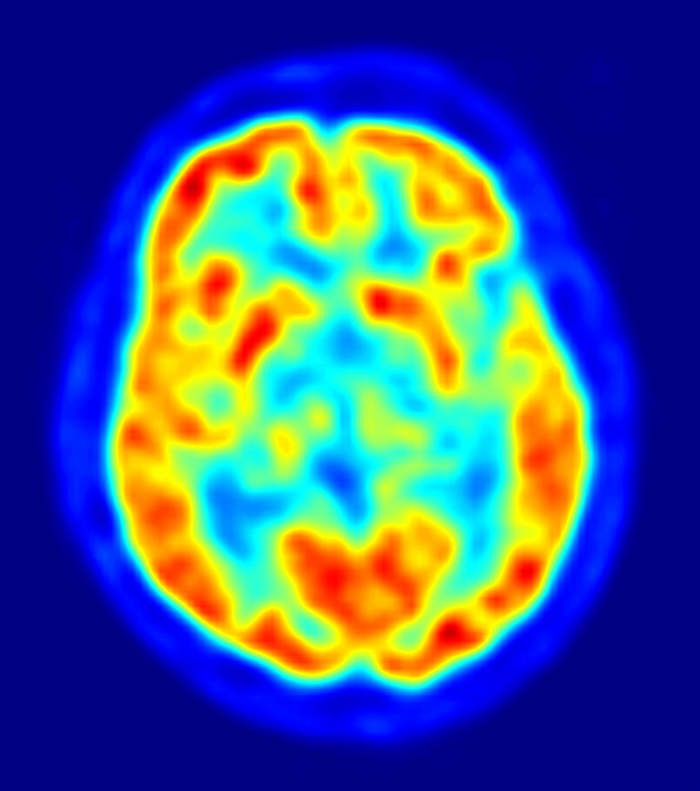 This is a transaxial slice of the brain of a 56 year old patient (male) taken with positron emission tomography (PET). The injected dose have been 282 MBq of 18F-FDG and the image was generated from a 20 minutes measurement with an ECAT Exact HR+ PET Scanner. Red areas show more accumulated tracer substance (18F-FDG) and blue areas are regions where low to no tracer have been accumulated.